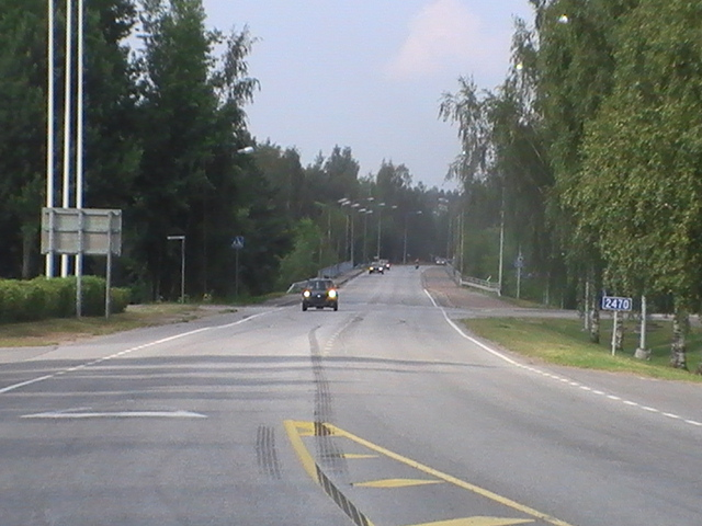 Finnish connecting road 2470 at Kokemäki. On the background you can see the bridge of Vuolteen silta, built in 1963.